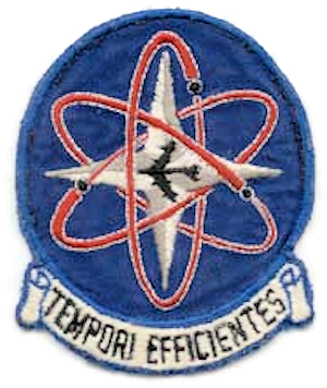 Emblem of the 428th Bombardment Squadron (SAC)